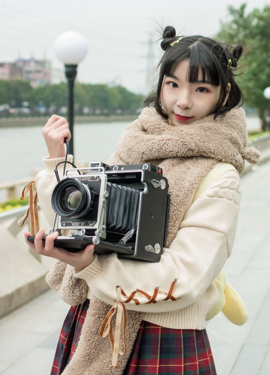 The picture shows a later model of 4x5 Pacemaker Crown Graphics camera with top mounted rangefinder (later model, after 1955) with Schneider Symmar-S 210mm f/5.6 lens on modified lens-board.